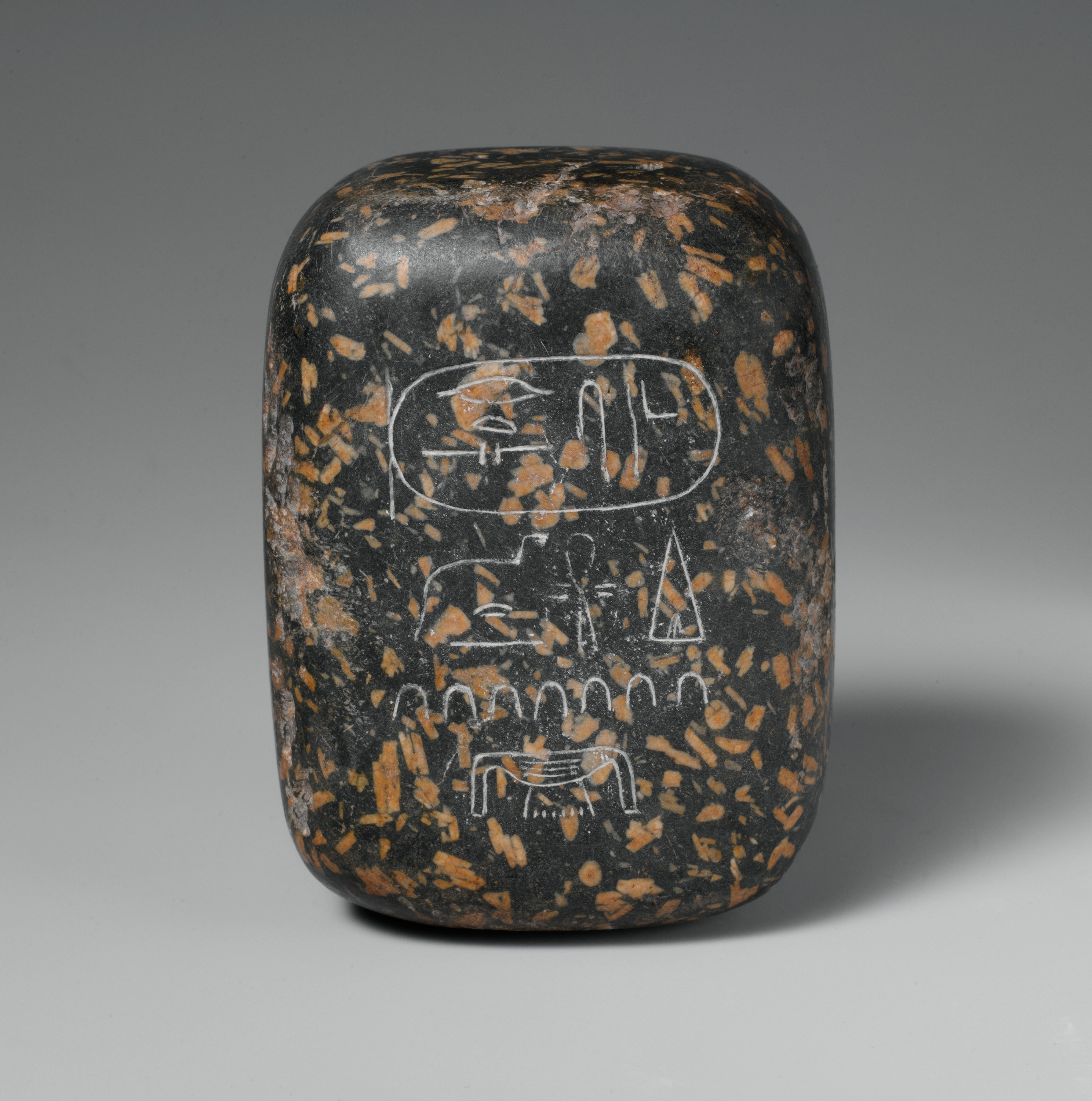 Weight, 70 deben, cube